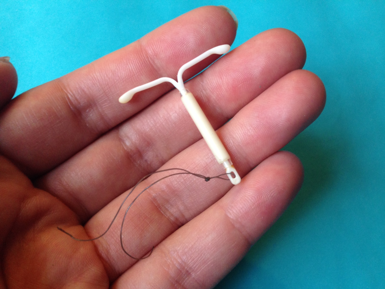 This is a Mirena IUD, a form of long-lasting reversible birth control. A Planned Parenthood doctor inserted it me in 2012 and it was removed in 2016.